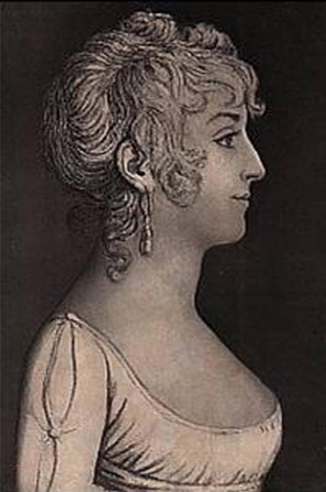 The french courtesan Ida Saint-Elme (1778-1845).